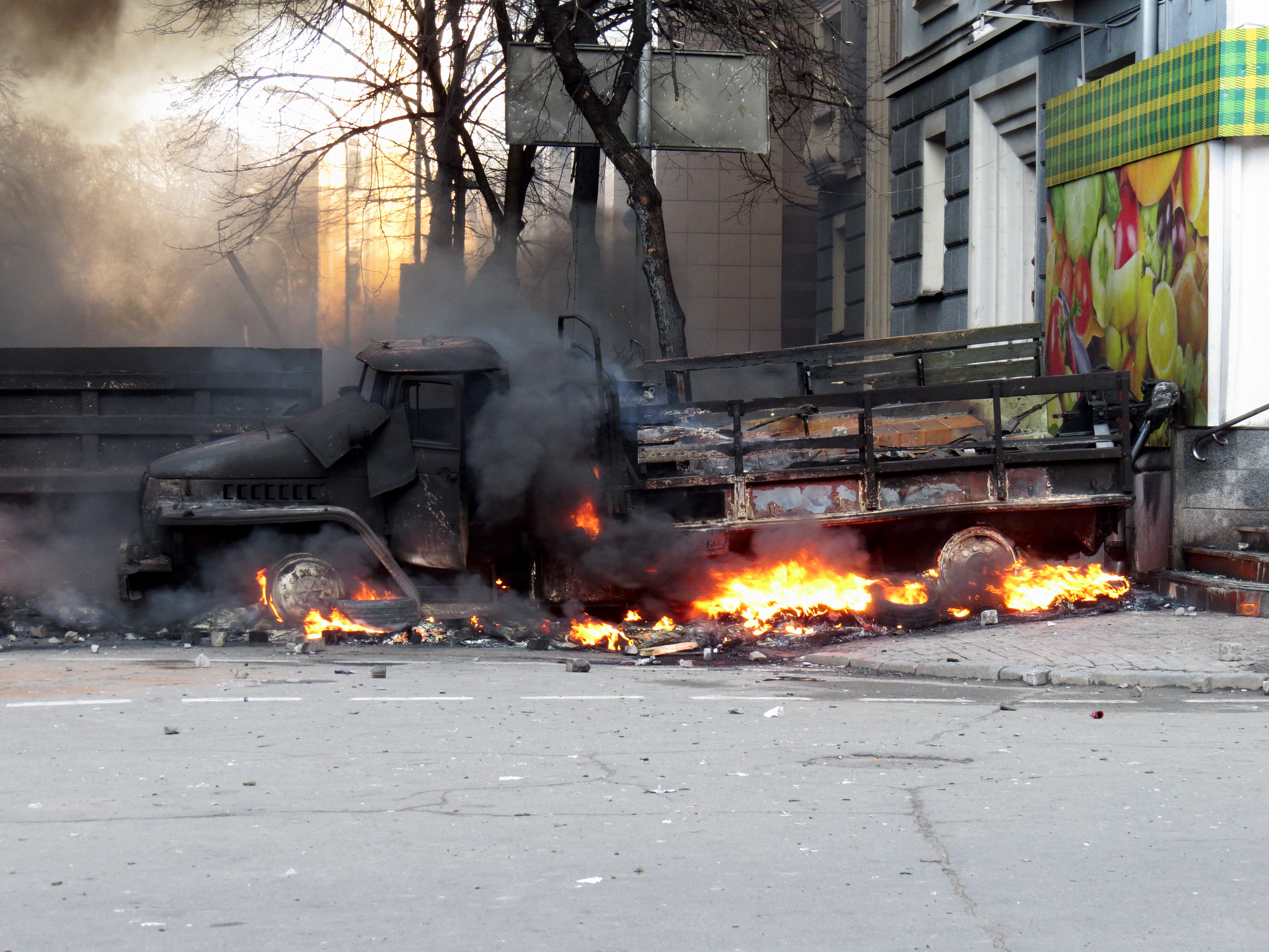 Kiev, February 18, 2014. Intersection of Instytuska/Sadova. Burning truck used by protesters as a „fire barricade“